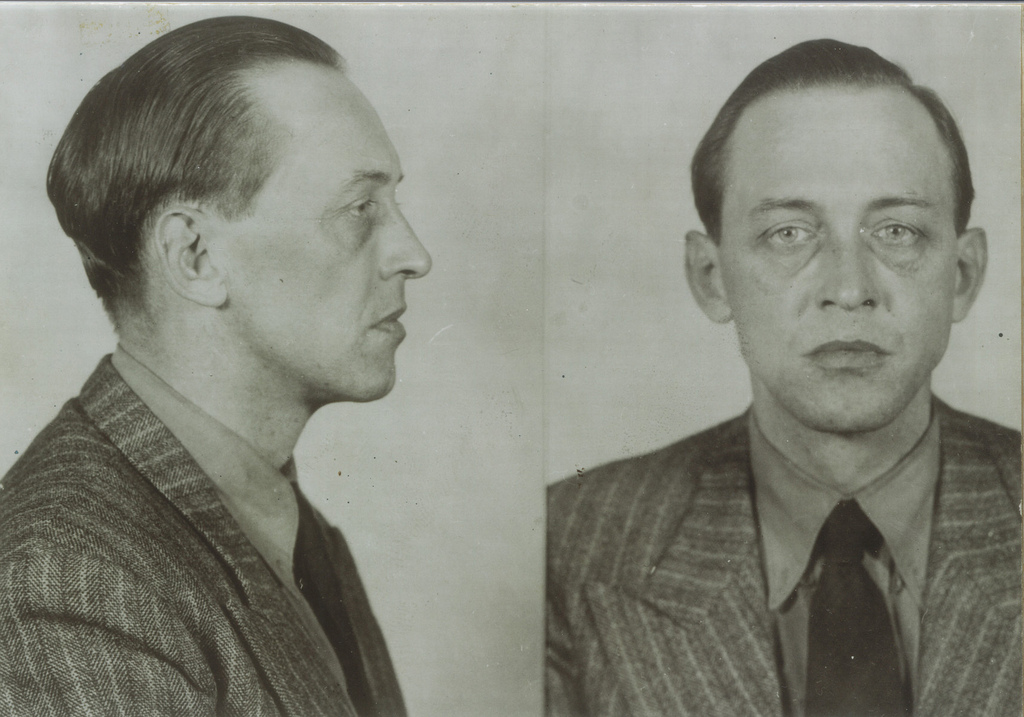 RCMP mug shots of Janowski, a Germany spy. He was 38 years old at the time of his capture.